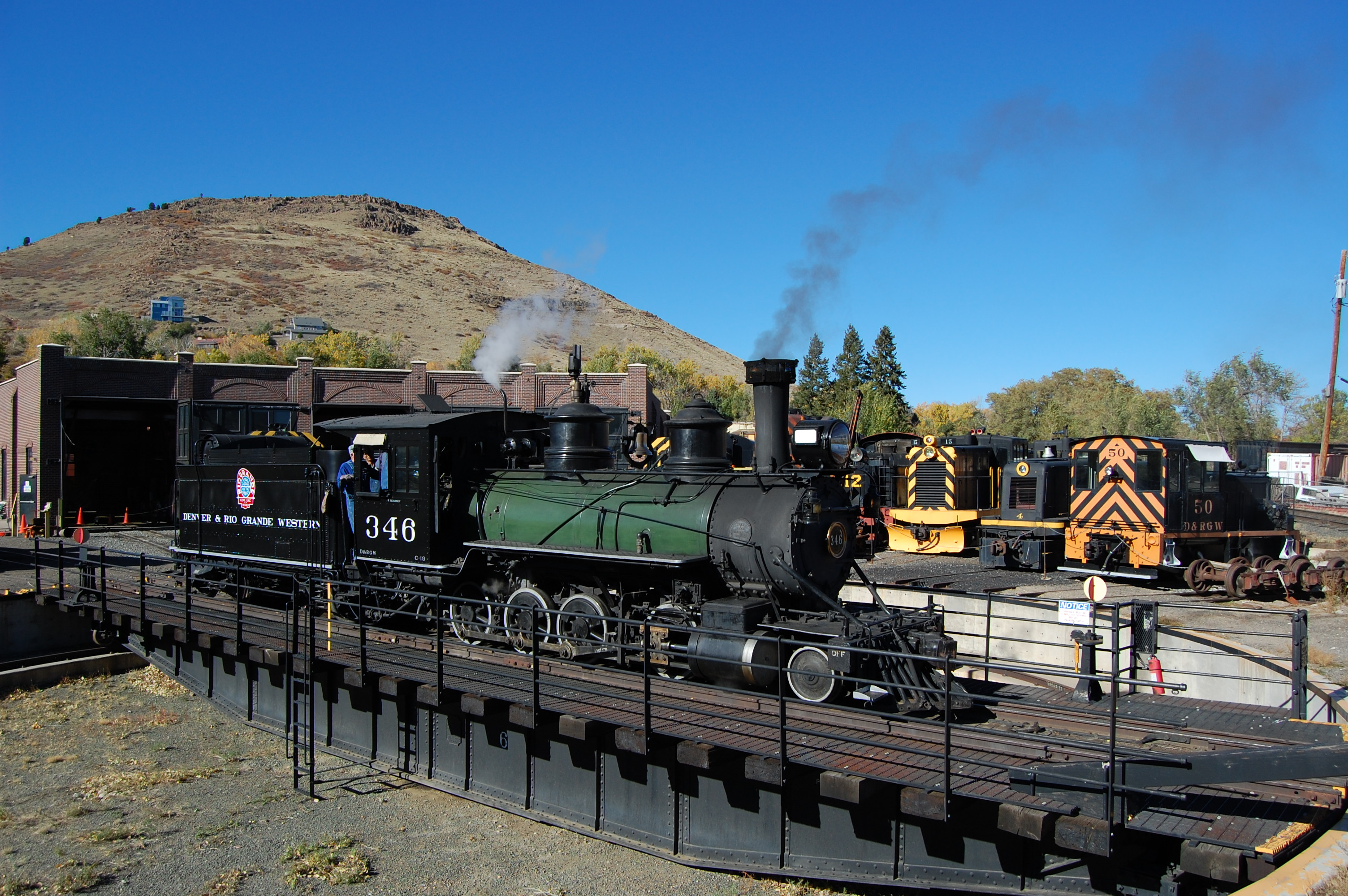 Steam locomotive D&RGW #346 on the turntable in Golden on October 18, 2012